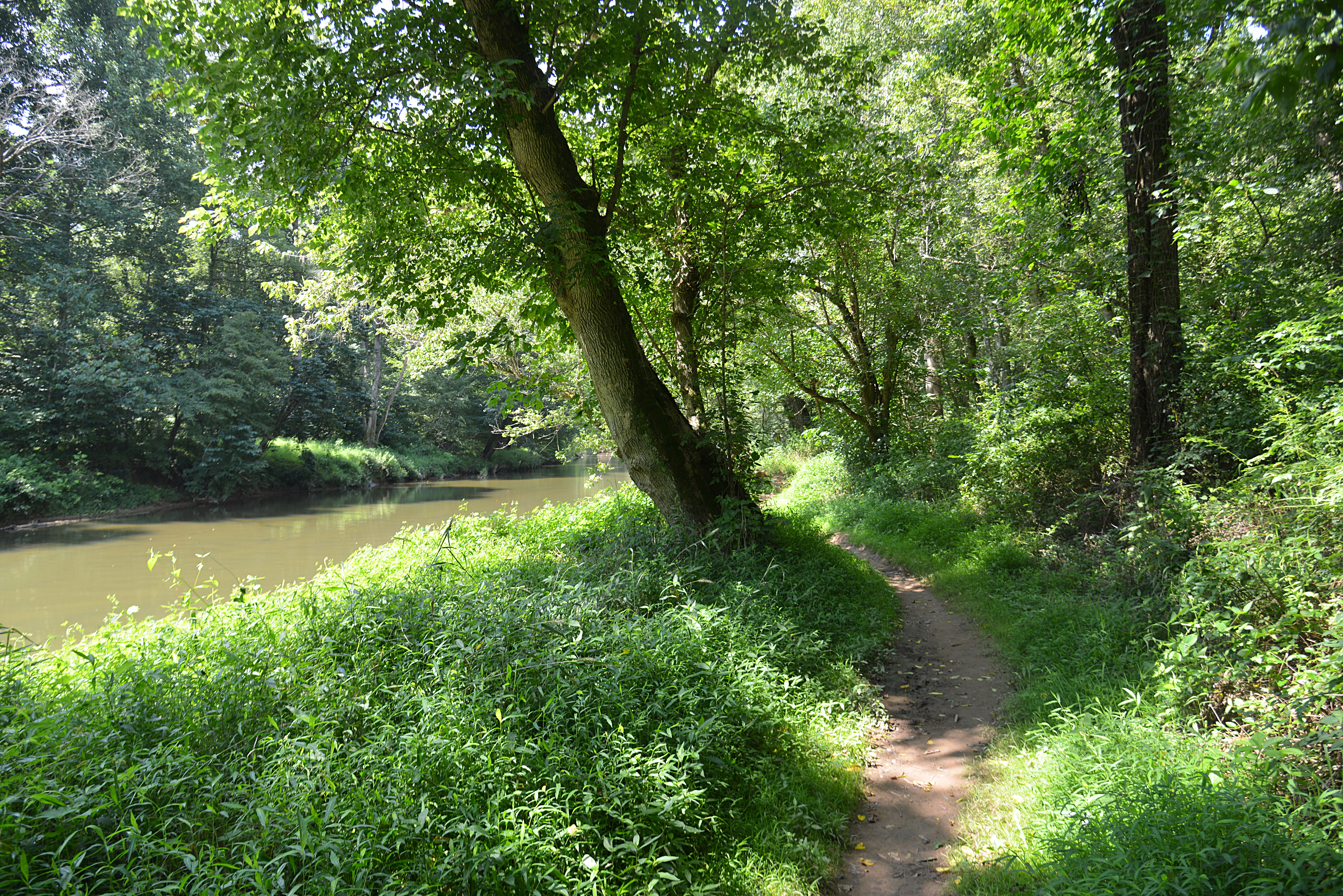 The Seneca Creek Greenway Trail runs right alongside Seneca Creek which is wide and slow moving here.